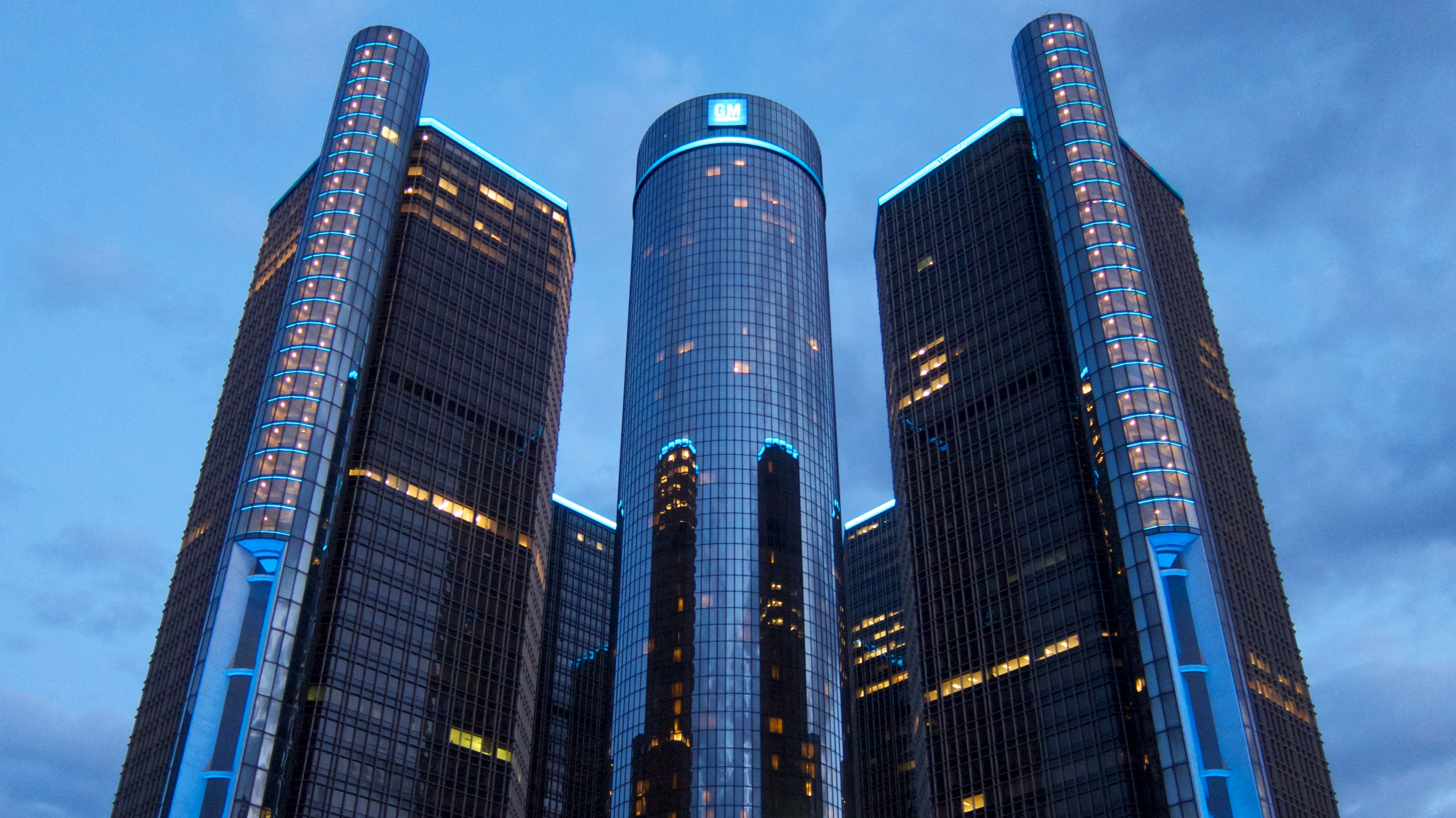 Original 5 tower Renaissance Center complex, in Detroit, in 1977. Designed by architect John Portman.